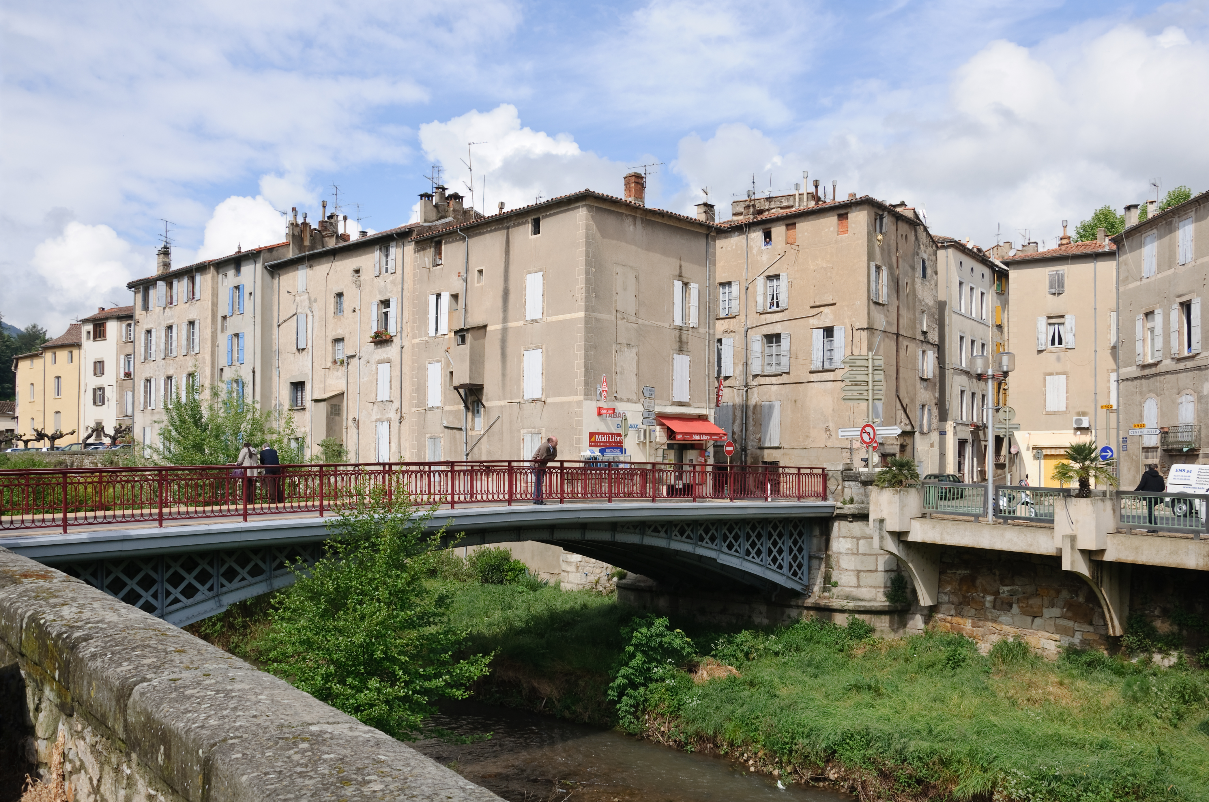 Lodève, Hérault, France, seen at the level of the Pont de Fer ('Iron Bridge', 19th century), along the Soulondre river.